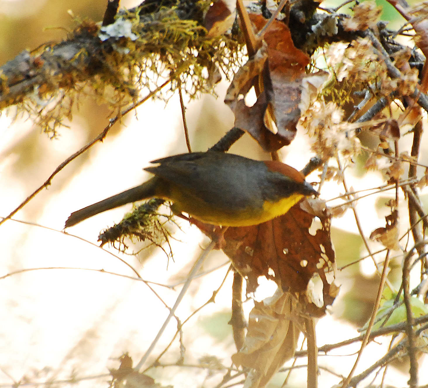 Rufous-capped Brush Finch at La Cumbre, Oaxaca, Mexico, Altapetes pileatus.